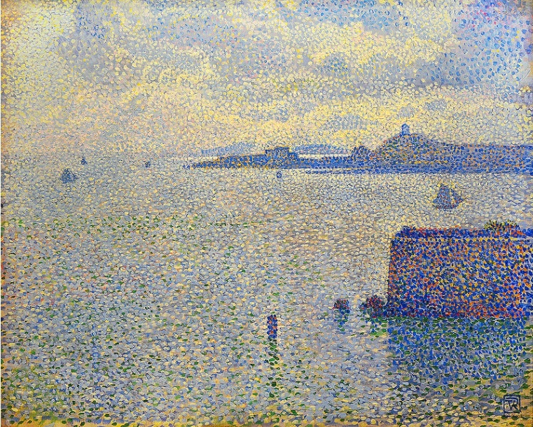 Paintings by Theo Van Rysselberghe